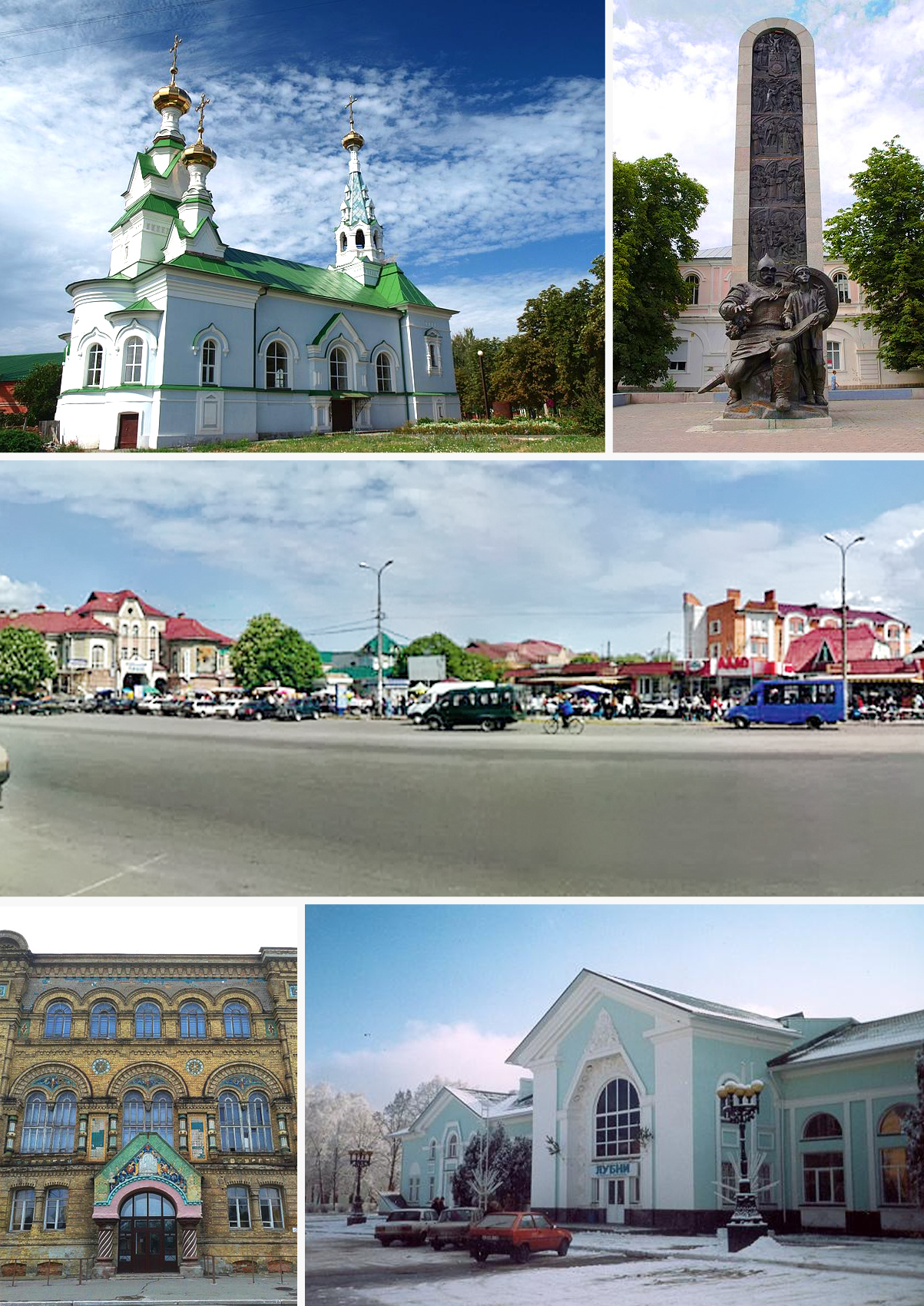 Top row: Church of the Nativity of the Blessed Virgin, Monument to the Lubny`s millennium. Average row: Yarmarkova Area. Lower row: facade of school No. 10, building of the Lubny Railway Station